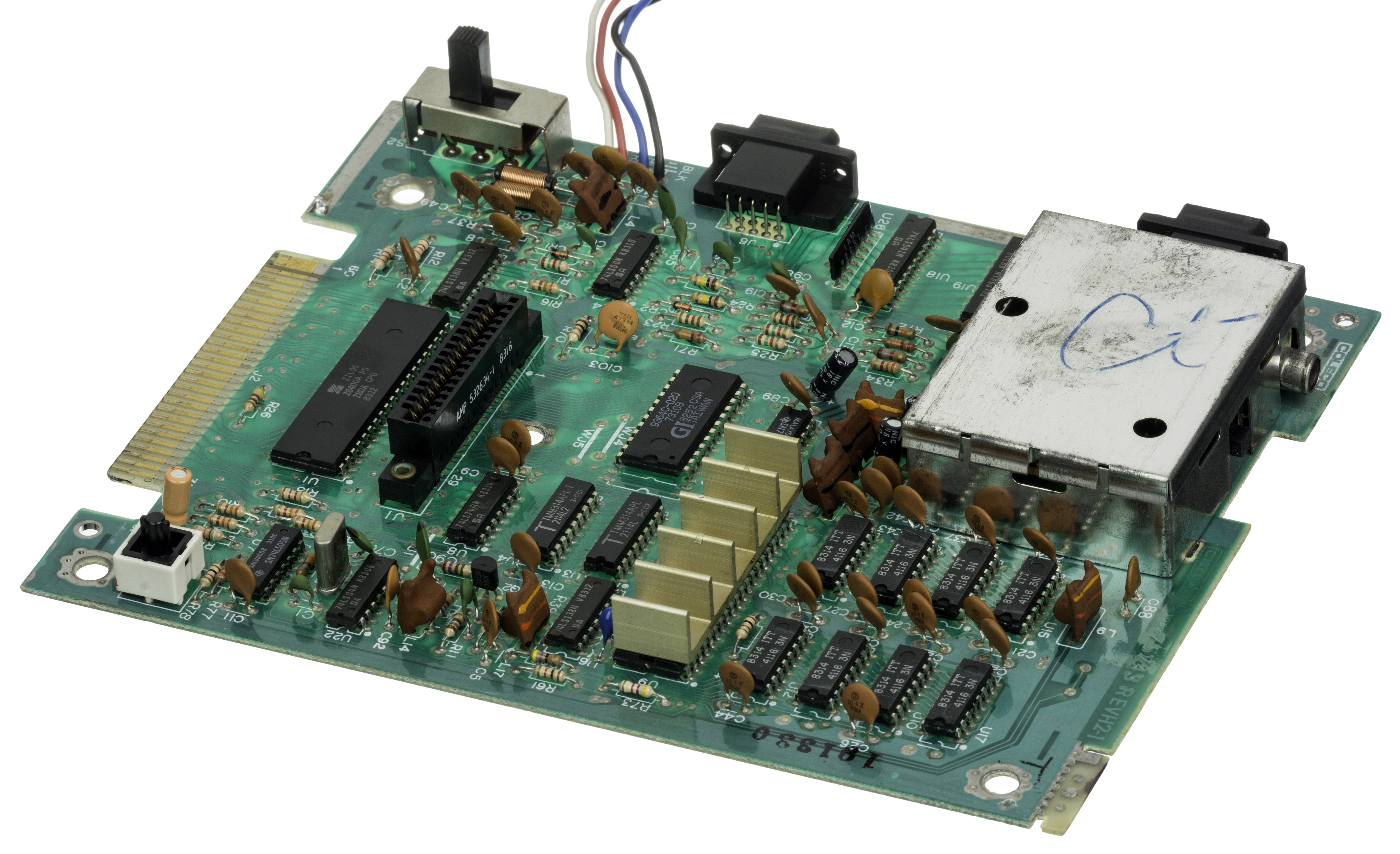 The motherboard of a ColecoVision gaming console. The ColecoVision runs off of a Zilog Z80A CPU, a Texas Instruments TMS9928A video processor and a Texas Instruments SN76489A sound chip. The ColecoVision is a second generation gaming console released in 1982 by Coleco Industries. The ColecoVision faced off against the older Atari 2600, and enjoyed moderate success when released due to its higher quality arcade ports. By 1983, however, the video game industry crash greatly hurt all gaming console manufacturers, leading to Coleco Industries bowing out of the gaming industry by 1985.